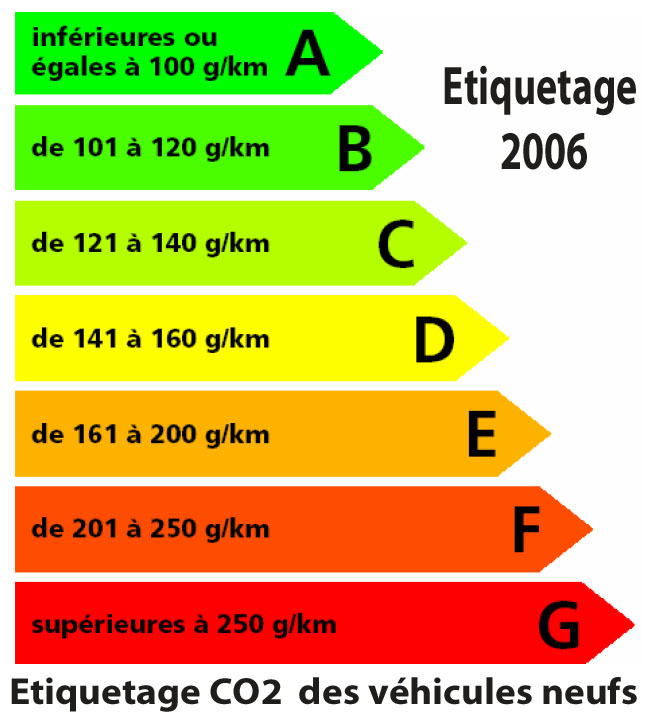 European Union energy label (EU Directive 92/75/EC for france 2006 (see also another example)